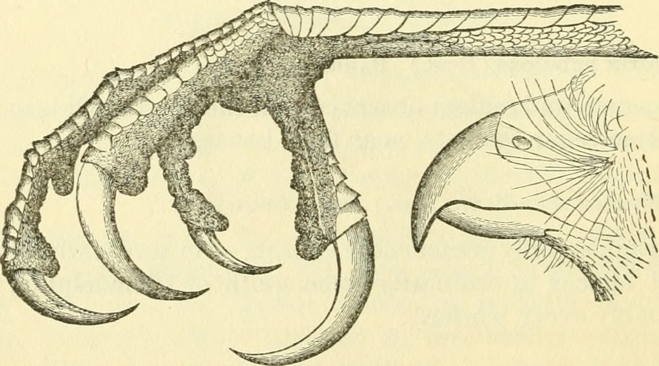 Title: Bulletin - United States National Museum Year: 1877 (1870s) Authors: United States National Museum Smithsonian Institution United States. Dept. of the Interior Subjects: Science Publisher: Washington : Smithsonian Institution Press, (etc.) for sale by the Supt. of Docs., U.S. Govt Print. Off. Text Appearing Before Image: Fig. 68.—Head of Marsh Hawk, uat. size. other wet places in the northern part of the city. It is one of the speciesmost frequently exposed for sale in the markets. (489) The Swallow-tailed Kite, Elanoides forjicatus, is a wide ranging spe-cies, which may pay us a flying visit at any time. 151. (6.) Accipiter fuscus (Gm.) Bp. Sharp-shinned Hawk.Resident. Abundant. (494) 152. (5.) Accipiter cooperi Bp. Coopers Hawk ; Chicken Hawk.Resident. Abundant. (495) Text Appearing After Image: Fig. C9.—Bill and foot of Coopers Hawk, nat. size. RAPTORES ACCIPITRES FALCONID^E. 8 7 153. (4.) Astur atricapillus (Wils.) Bp. Goshawk. Very rare; only occasionally observed during the winter months. (496J 154. (—.) Falco peregrinus Tunstall. Peregrine Falcon ; Duck Hawk.Very rare and only casual. We are informed by Mr. George Shoe-maker that a Duck Hawk was seen upon the river in winter some yearsago. On inquiring further into this case, Mr. William Palmer, who sawthe bird, gave us the following account: Ashe was skating on theriverjustabove Long Bridge, one morning in December, 1878, he observed a num-ber of Ducks upon some open water, towards which a man was pushing askiff over the ice. At his shot, a Duck which had been wounded rose andflew along a few feet over the ice. Mr. Palmer started in pursuit, buthad not gone far before he observed a Duck Hawk flying along onlyabout 20 yards overhead. Both man and hawk continued along in thismanner for some 300 yards, when the wounded